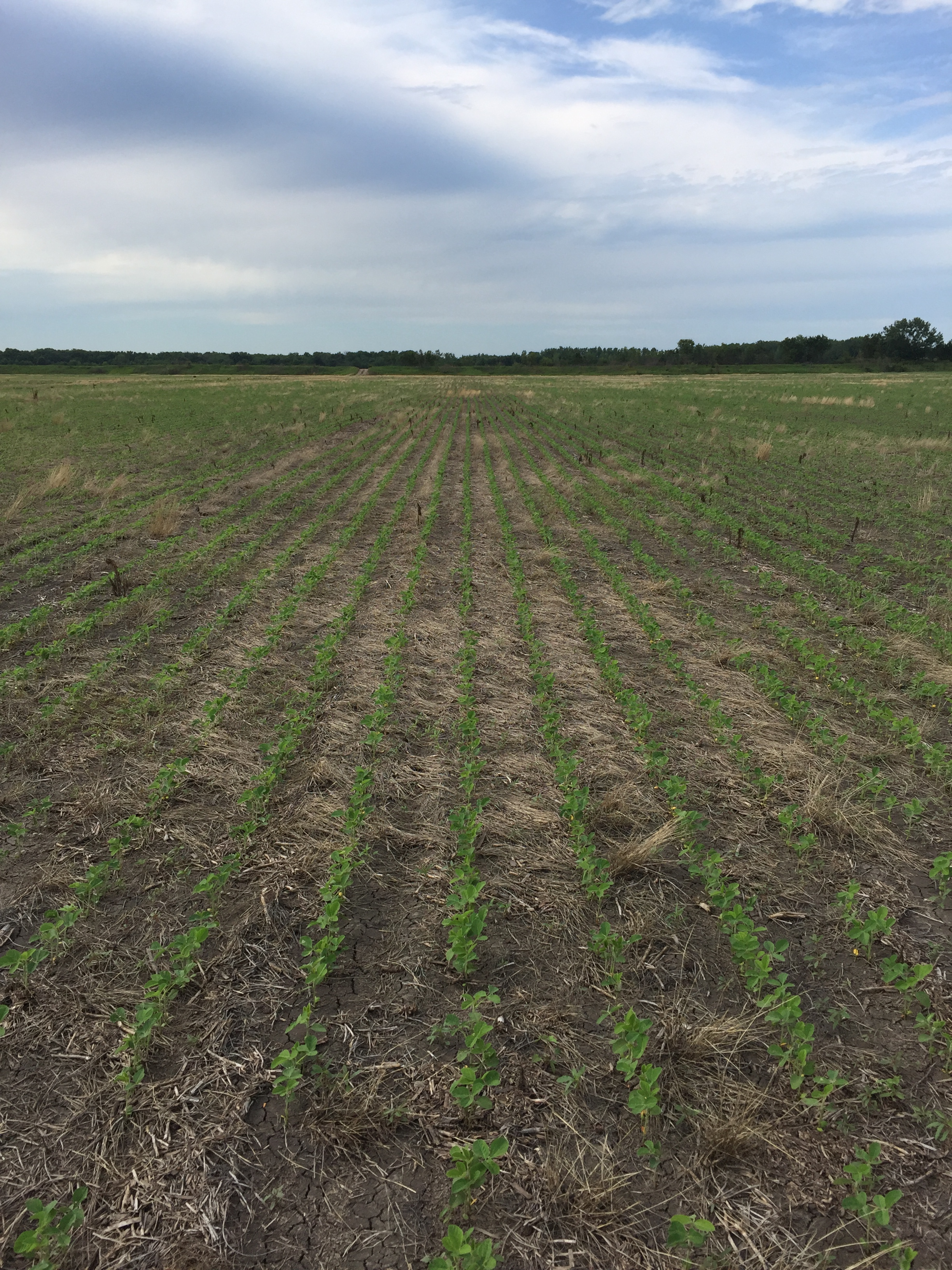 Northern Missouri No-Till Soybeans in Gumbo Soil